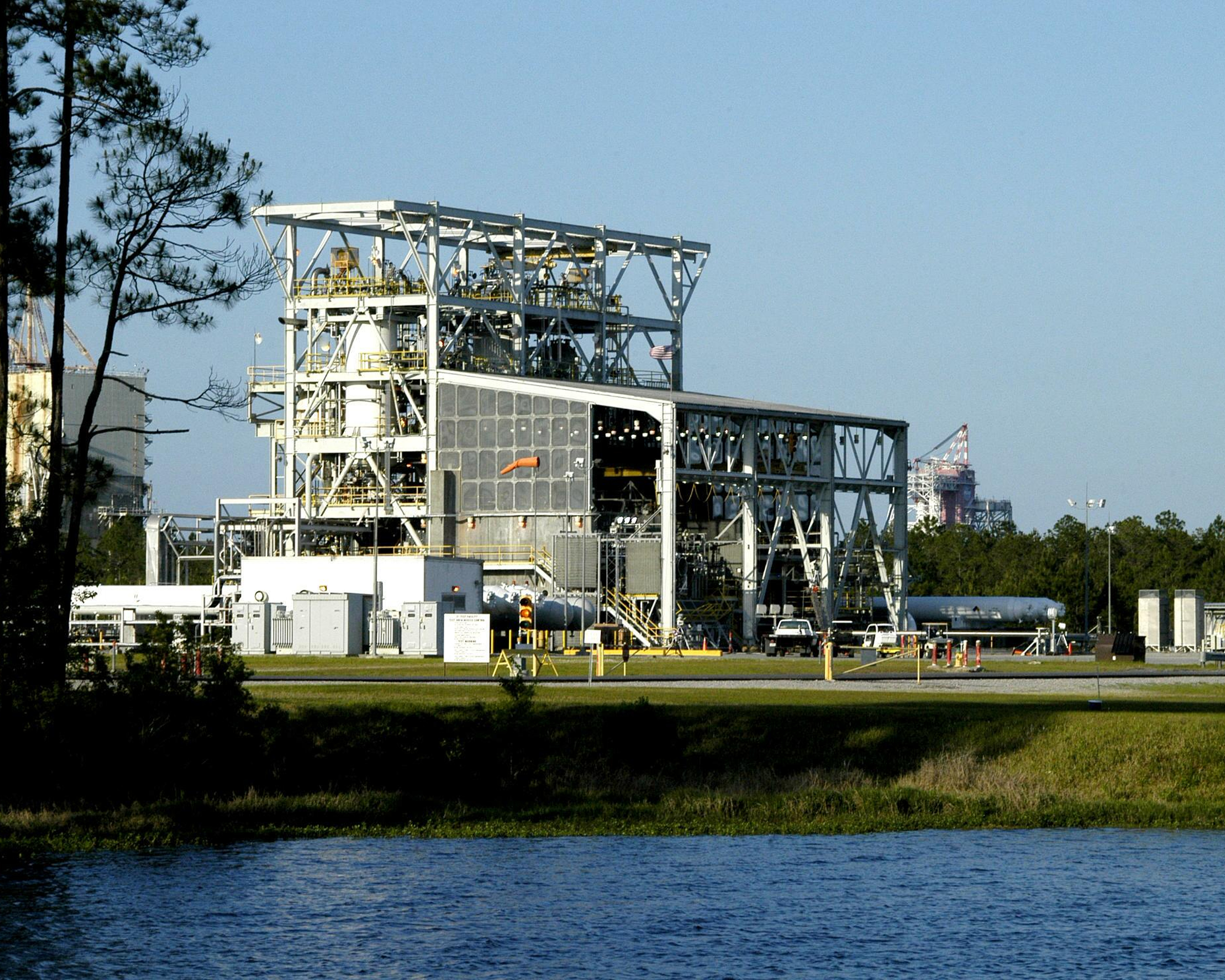 The E Test Complex is SSC's versatile, three-stand complex that includes seven separate test cells capable of testing that involves ultra high-pressure gases and cryogenic fluids.